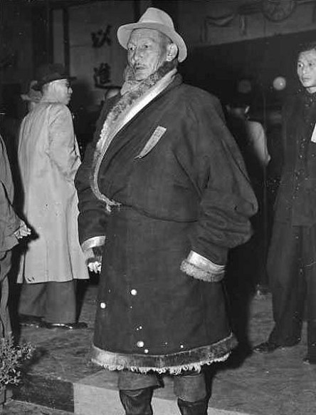 The Tibet representive in 1946 National Assembly